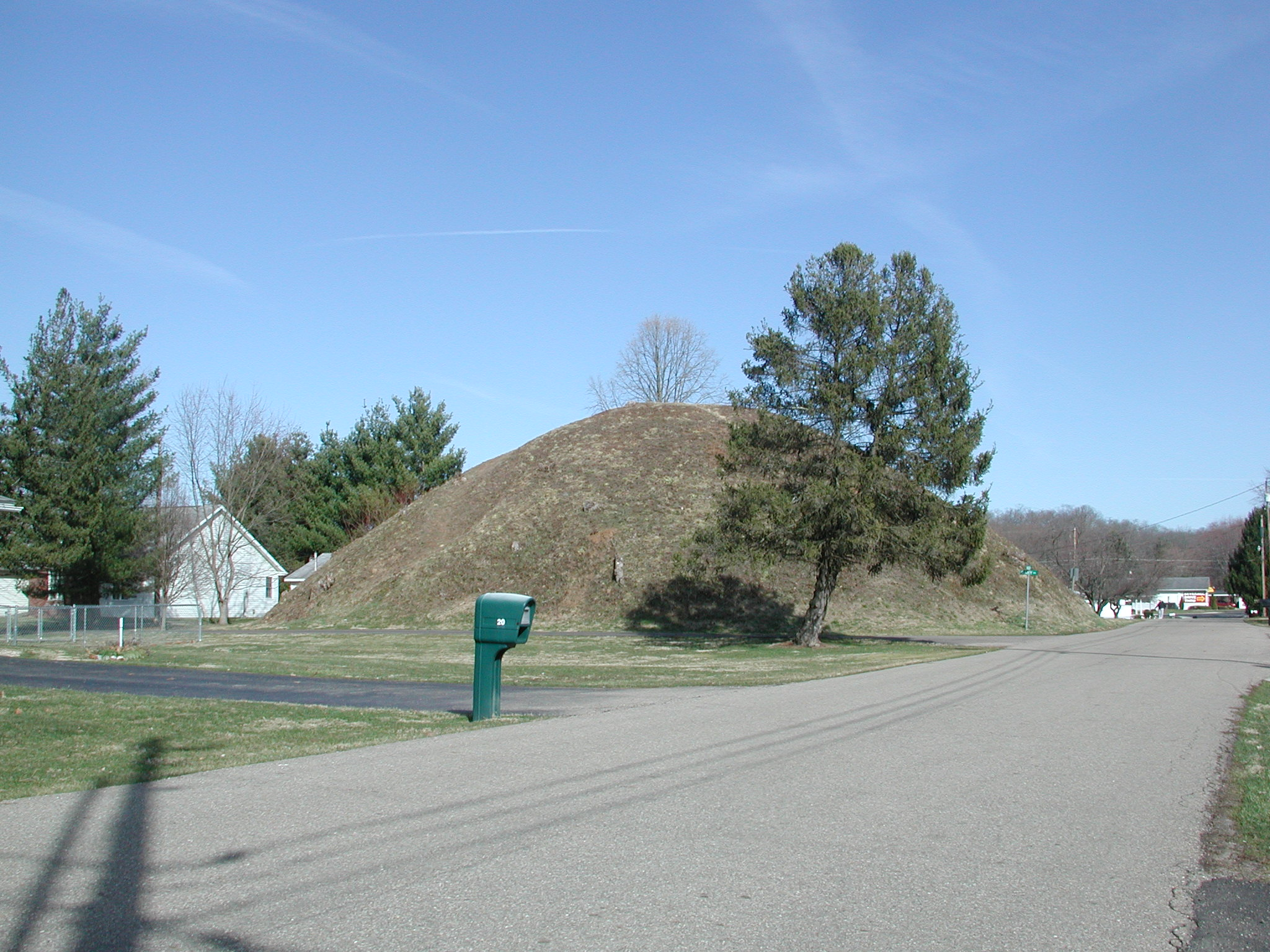 An Indian mound in The Plains, Ohio on Mound Street